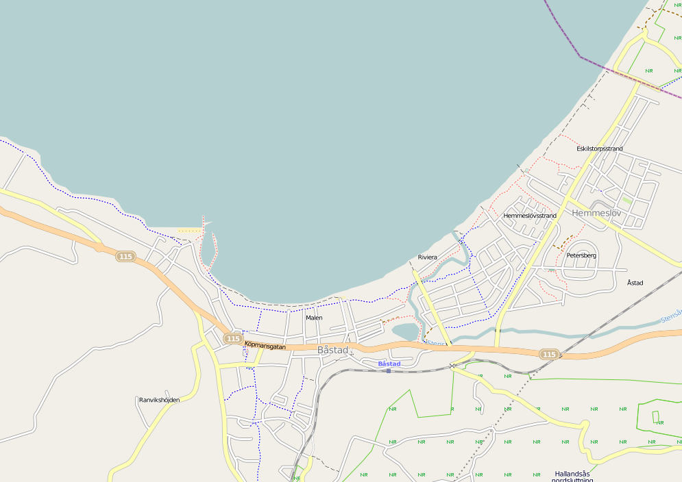 Båstad map